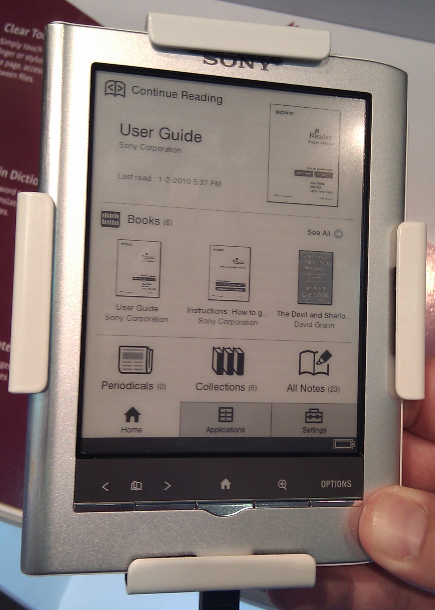 Sony Reader PRS-350